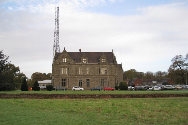 Woodcote, HQ of Warwickshire Police. Once the home of the Wise family, local landowners. There are several 20th century operational buildings out of sight beyond the house, which is seen here across the ha-ha around the grounds.